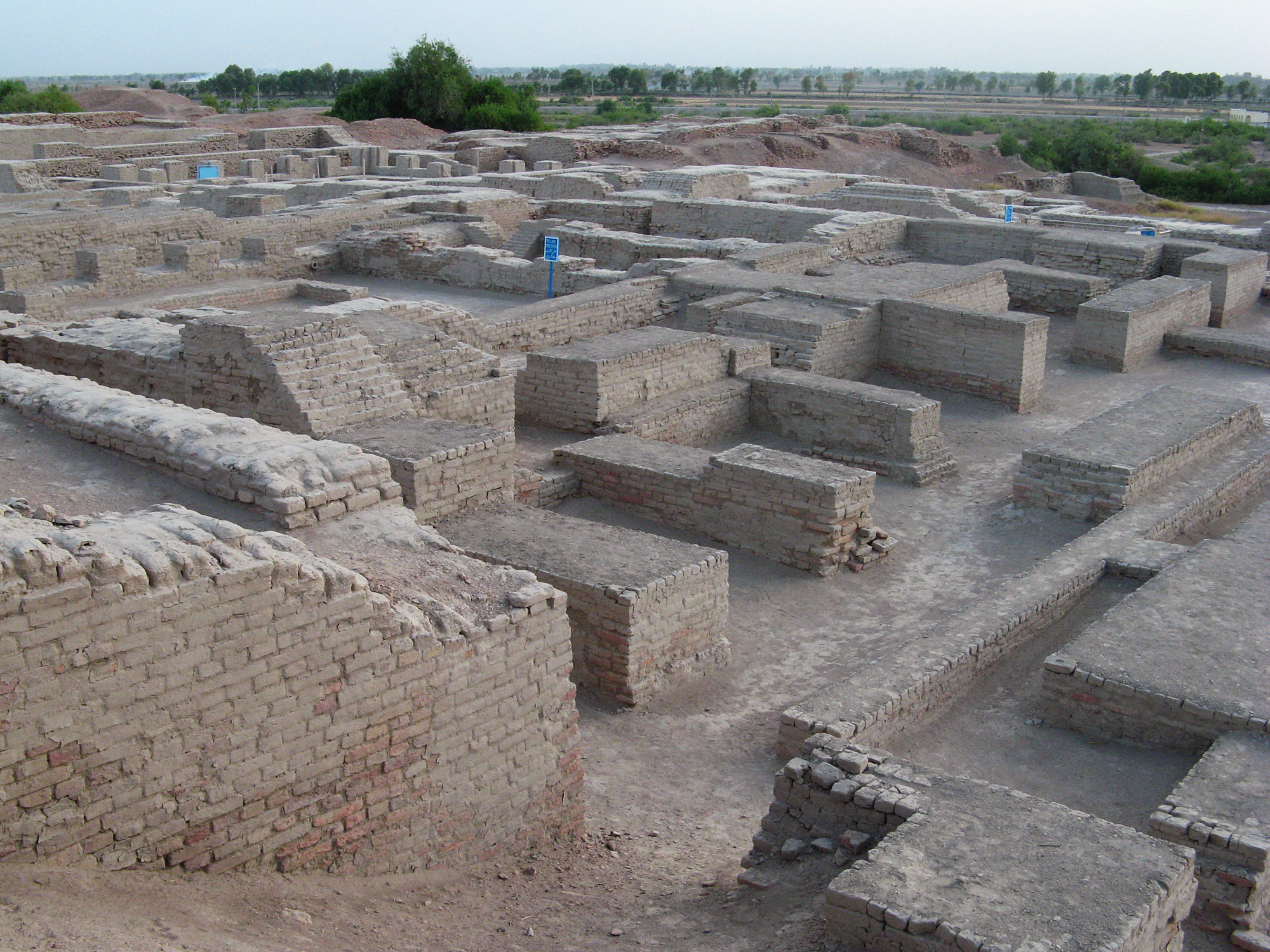 A city-settlement of the the Indus Valley Civilization, ca. 2600-1500 BCE.